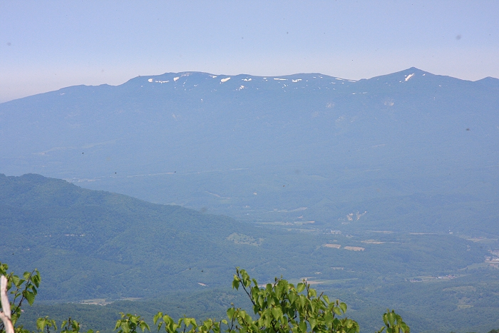 Mount Raiden (Raidenyama) as seen from Mount Kombu